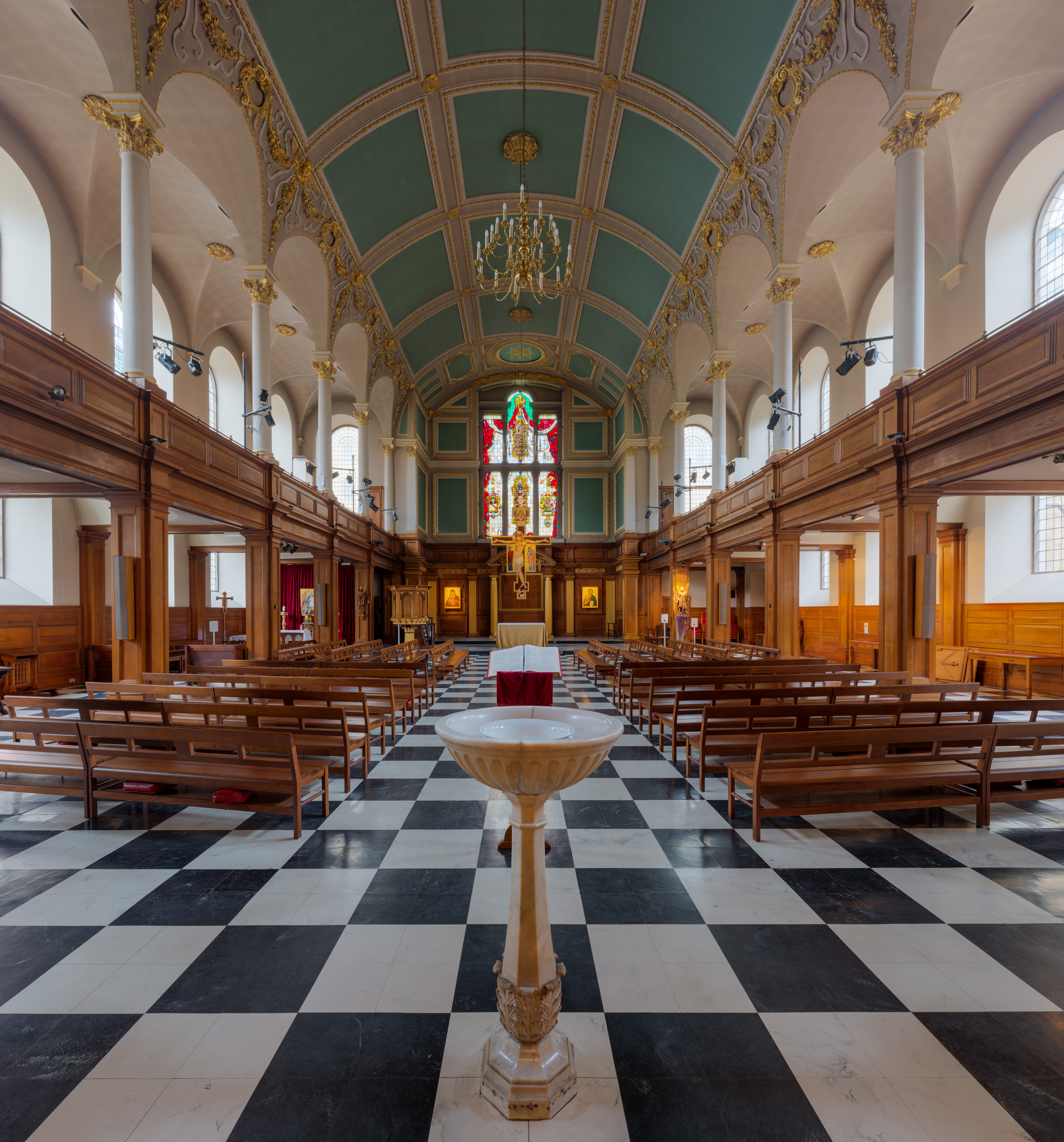 St Andrew, Holborn, in London, England. Facing east towards the altar.